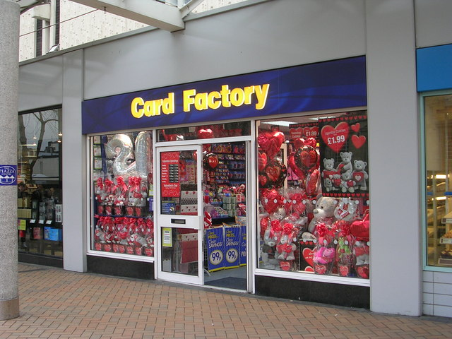 Card Factory - The Piazza Centre